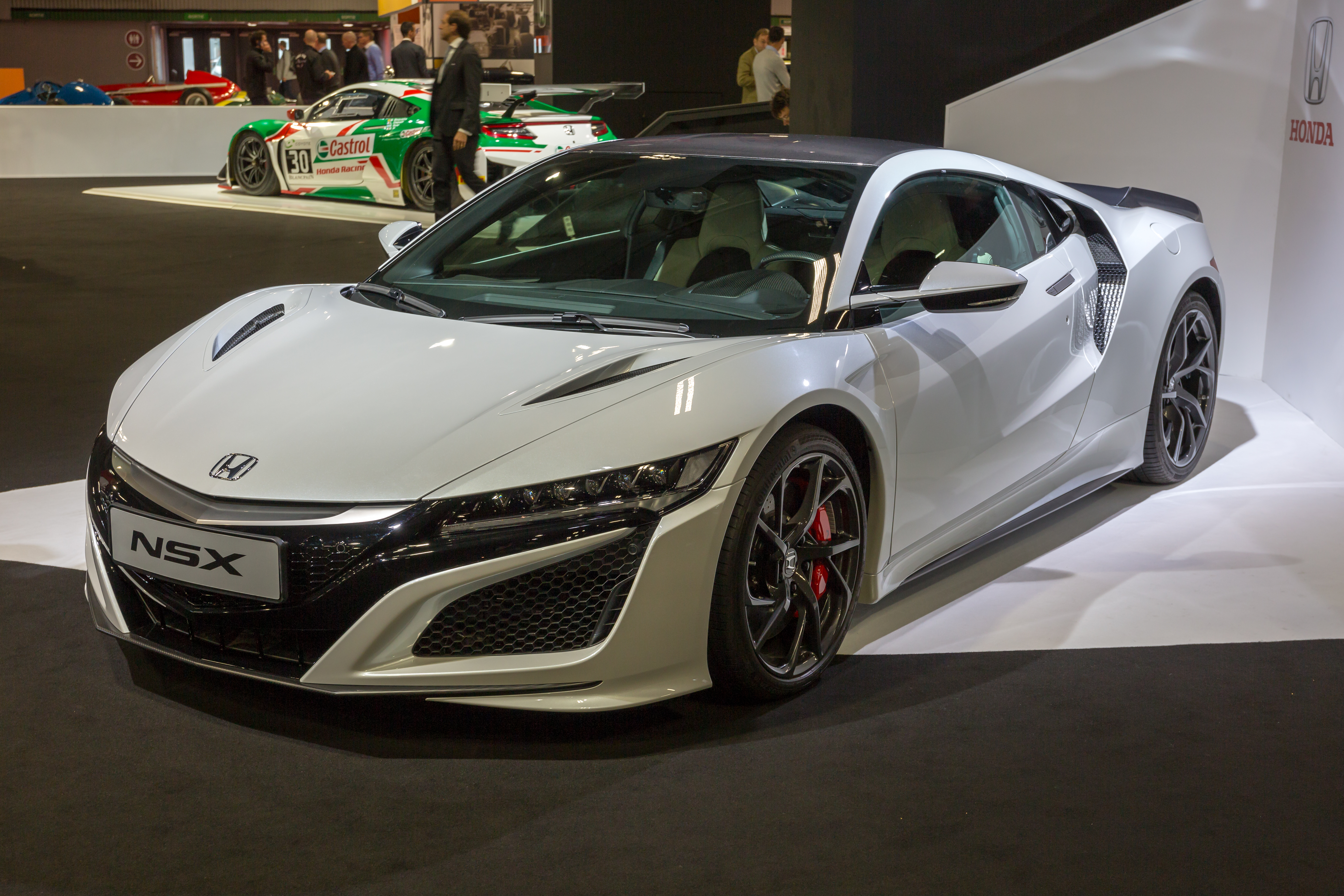 Honda NSX, Mondial Paris Motor Show 2018